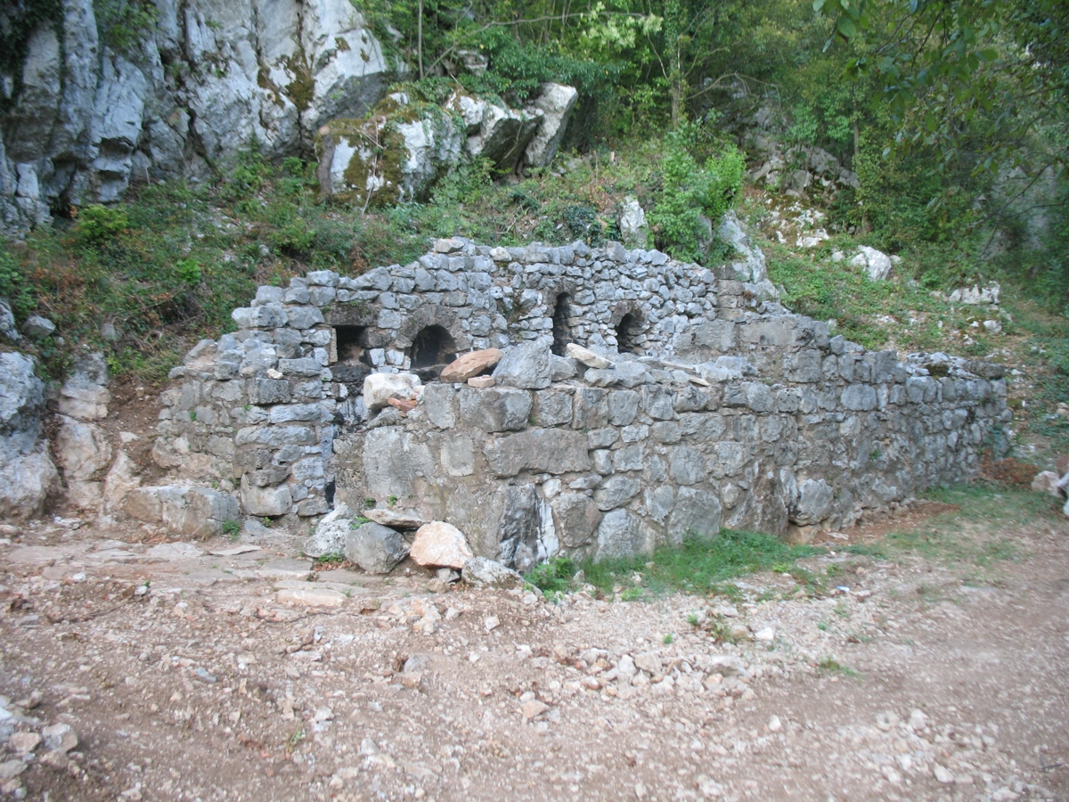 Church of Sveti Jovan Glavosek in Crnica gorge near Paraćin,Serbia.